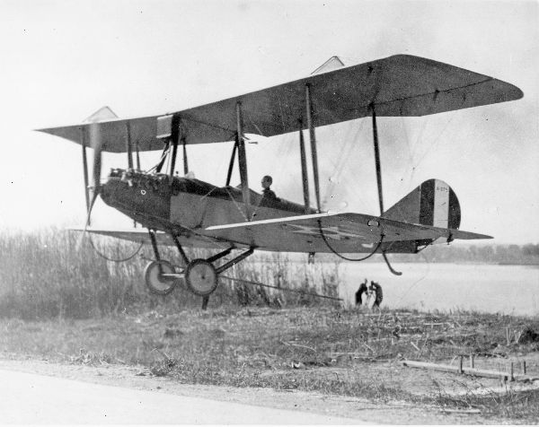 Aeromarine 39 biplane with Pratt hook